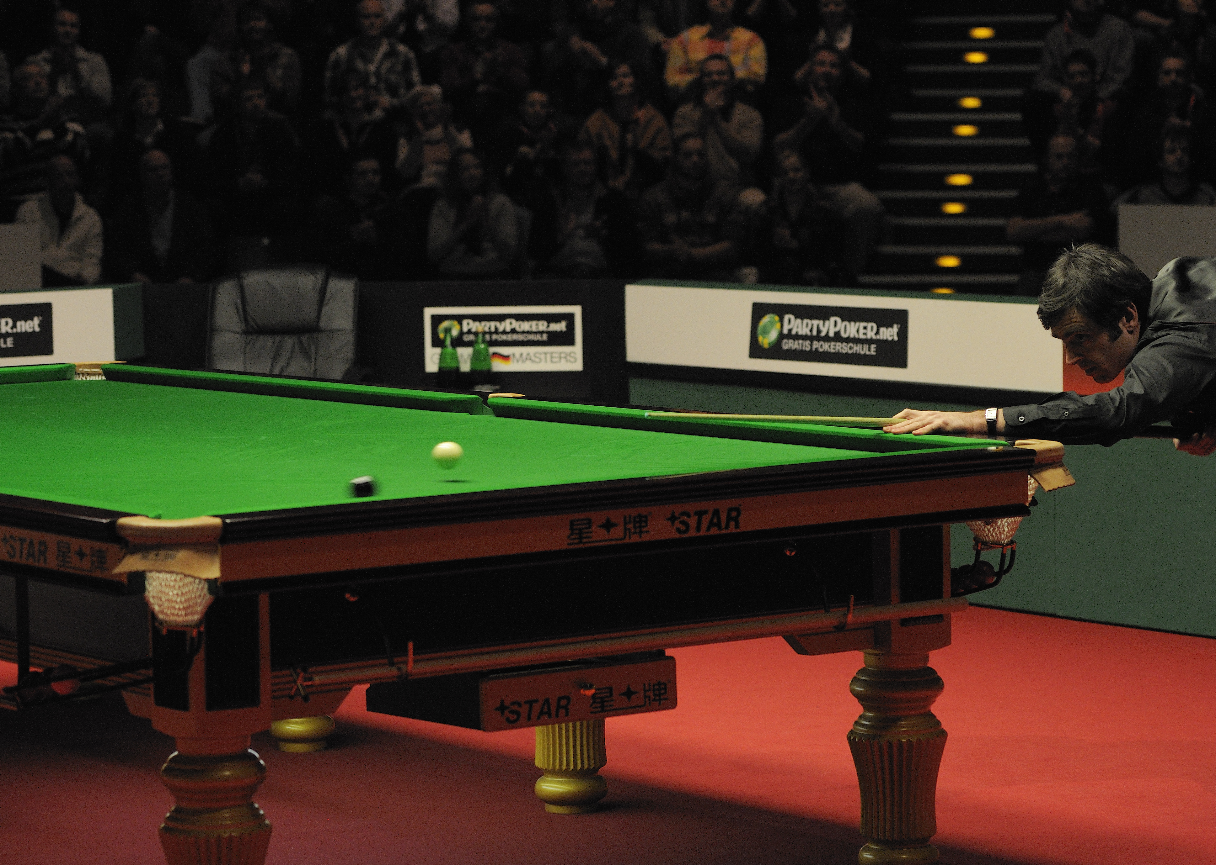 Picture taken in Berlin during the Snooker German Masters in 2011. Ronnie O’Sullivan.